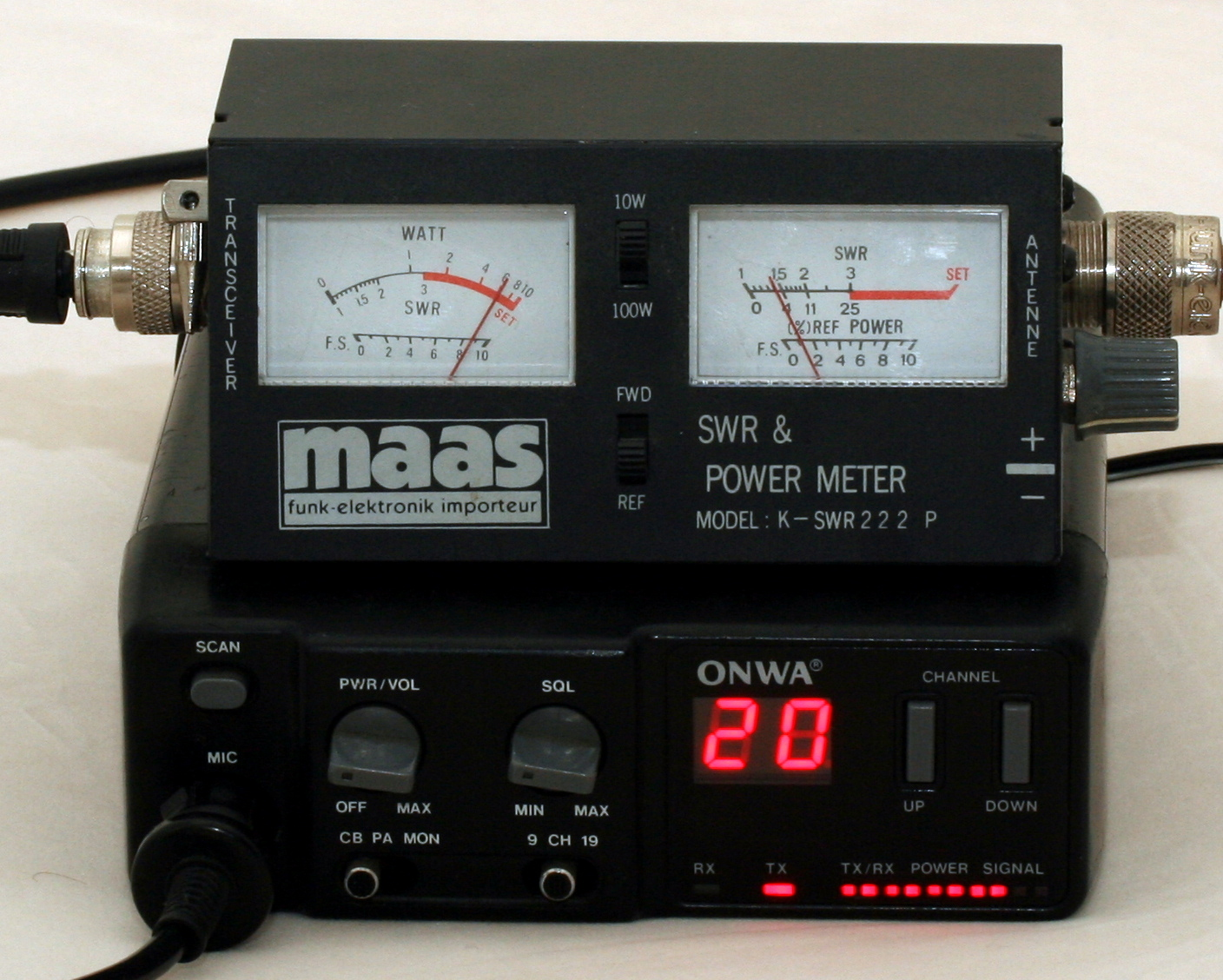 Setting SWR with Onwa MK-2 CB radio